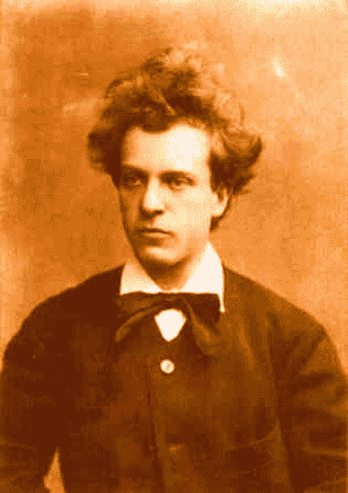 Photograph of Hans Rott (1858 - 1884)